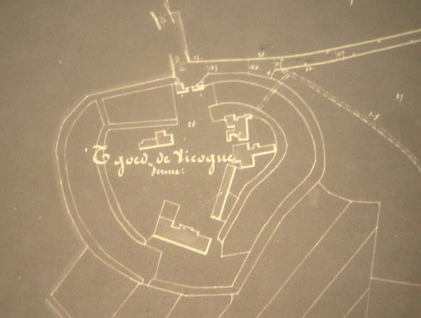 Part of [1], a map made by the belgium goverment in 1841. This part is "Viconiahoeve" of "hoeve vicogne".